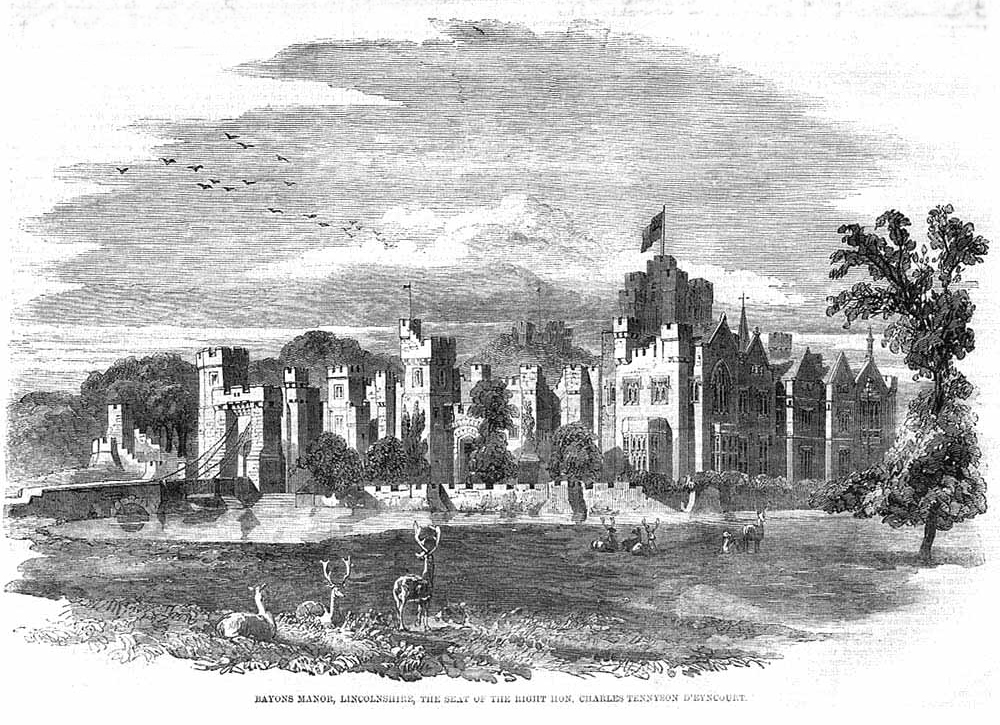 Woodcut print of Bayons Manor dated 1859